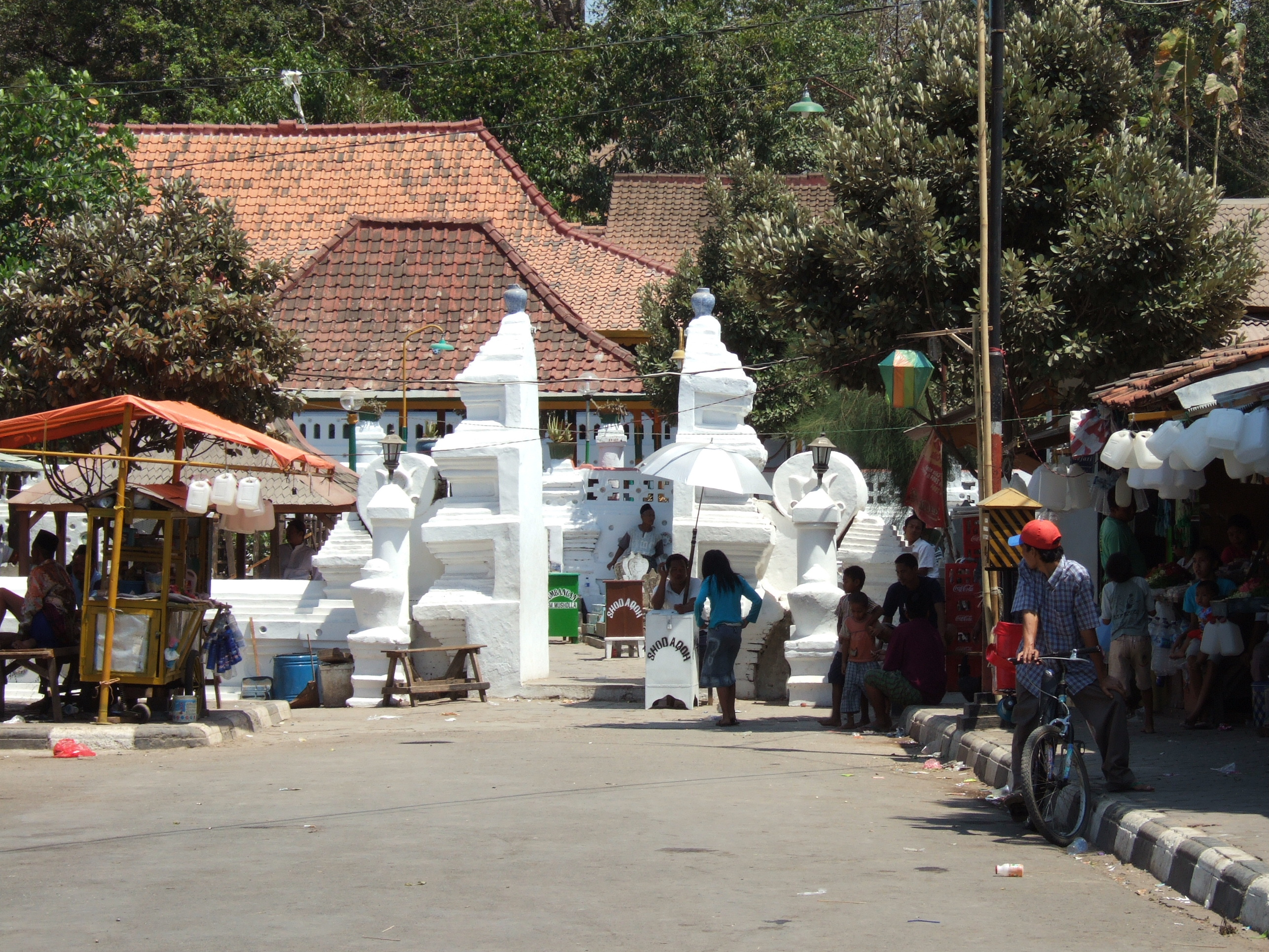 Entrance to tomb of Sunan Gunung Jati, Cirebon, Indonesia